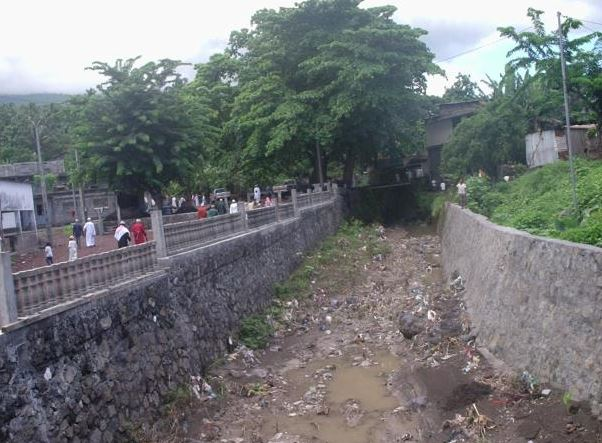 torrent dambé mitsoudjé